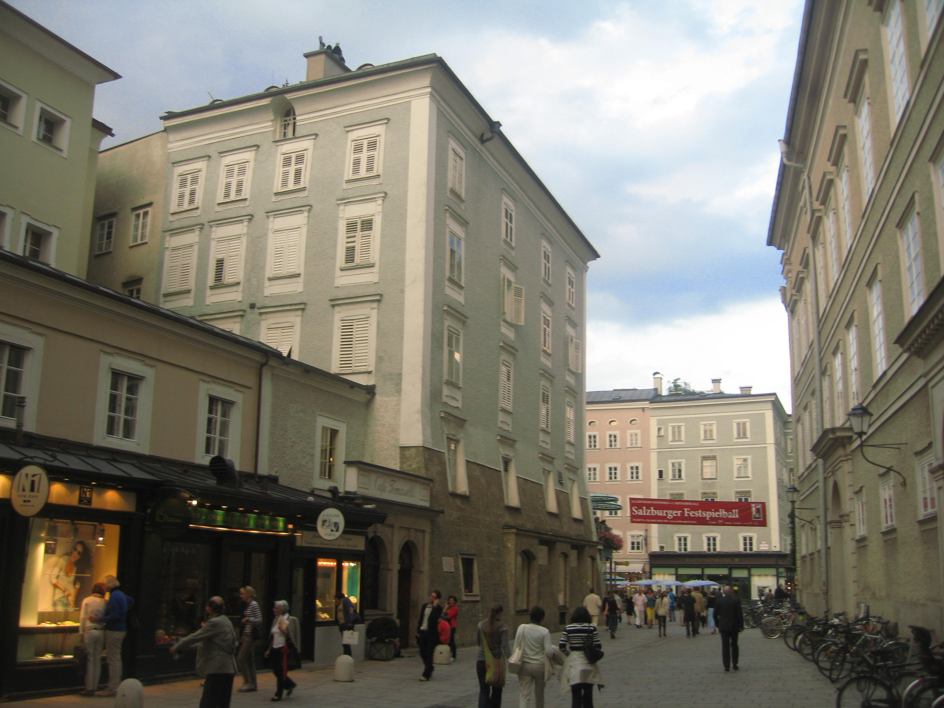 Café Tomaselli in Salzburg